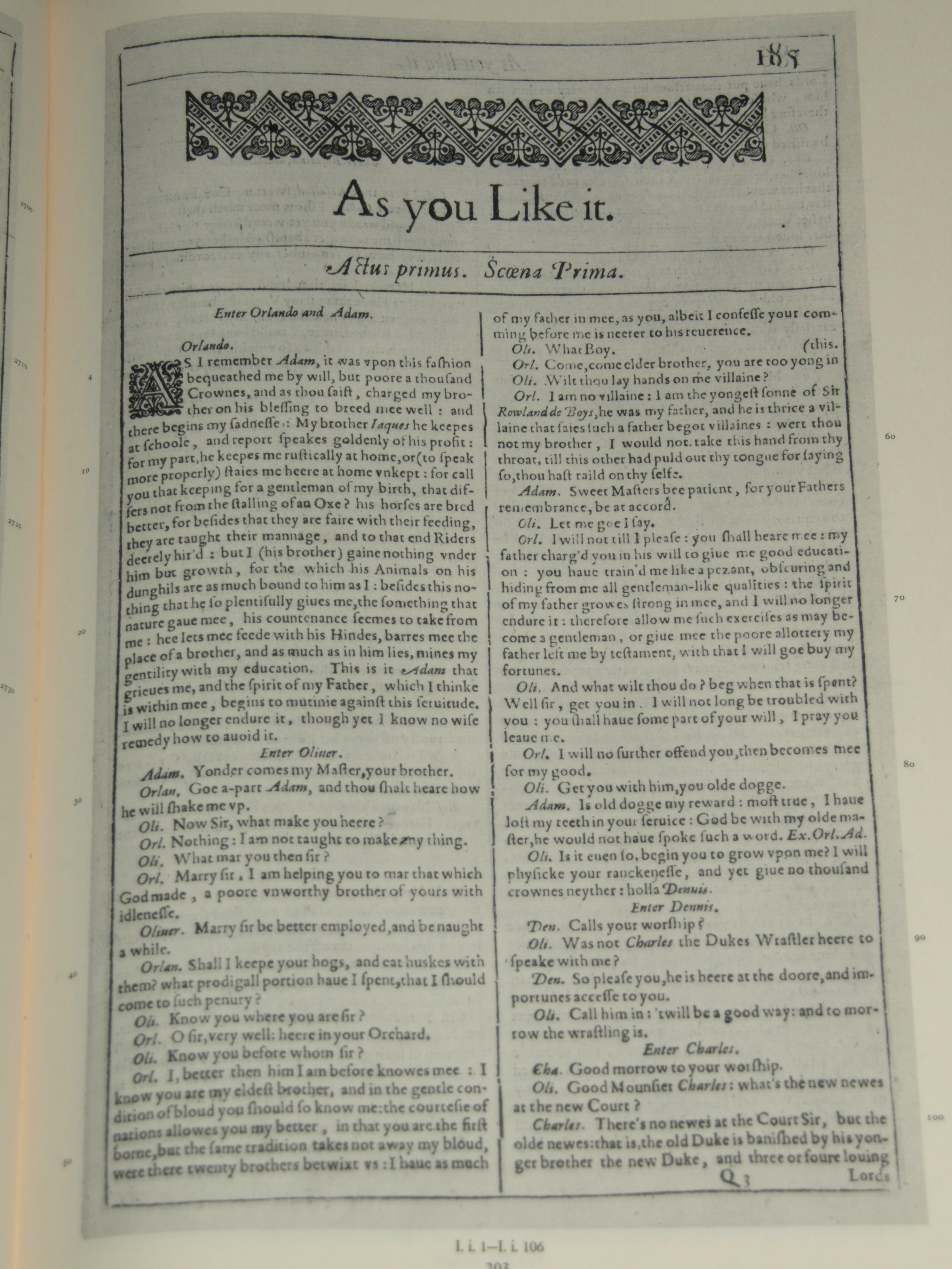 Photo of the first page of As You Like It from a facsimile edition of the First Folio of Shakespeare's plays, published in 1623